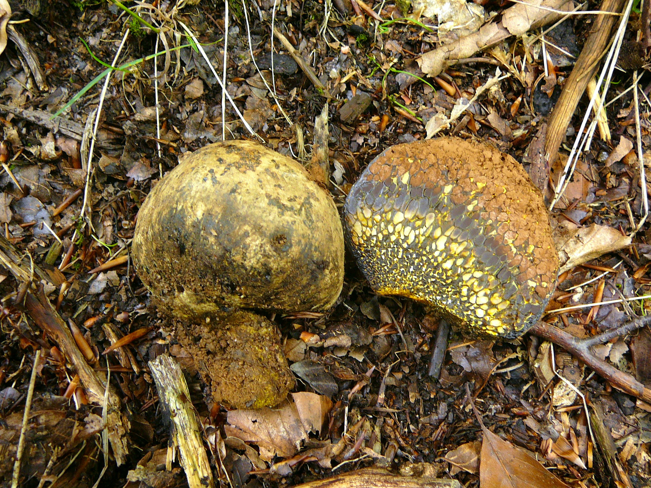 Cut Pisolithus arrhizus, founded near Krhanice village, in Central Bohemia, the Czech Republic.